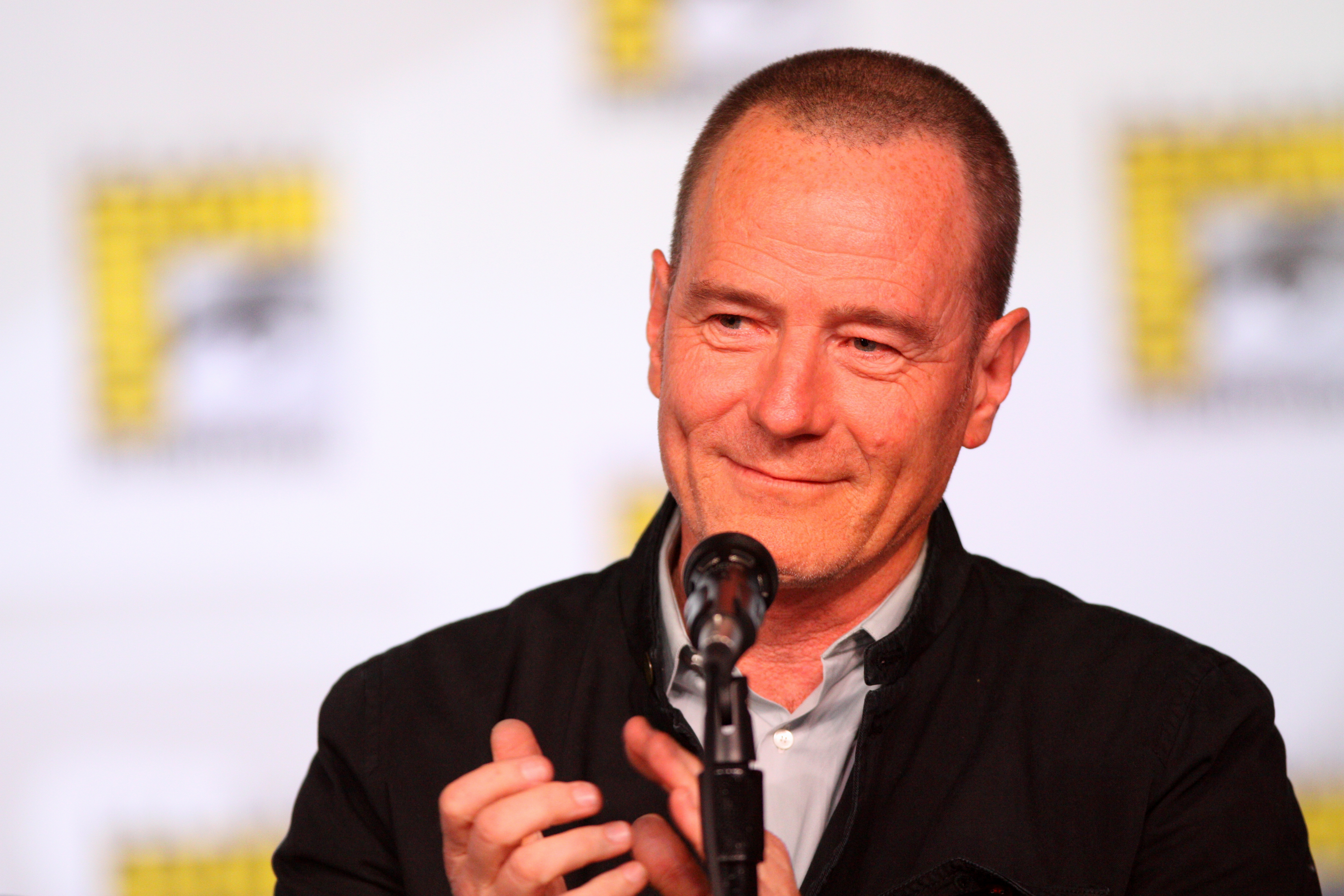 Bryan Cranston speaking at the 2012 San Diego Comic-Con International in San Diego, California.